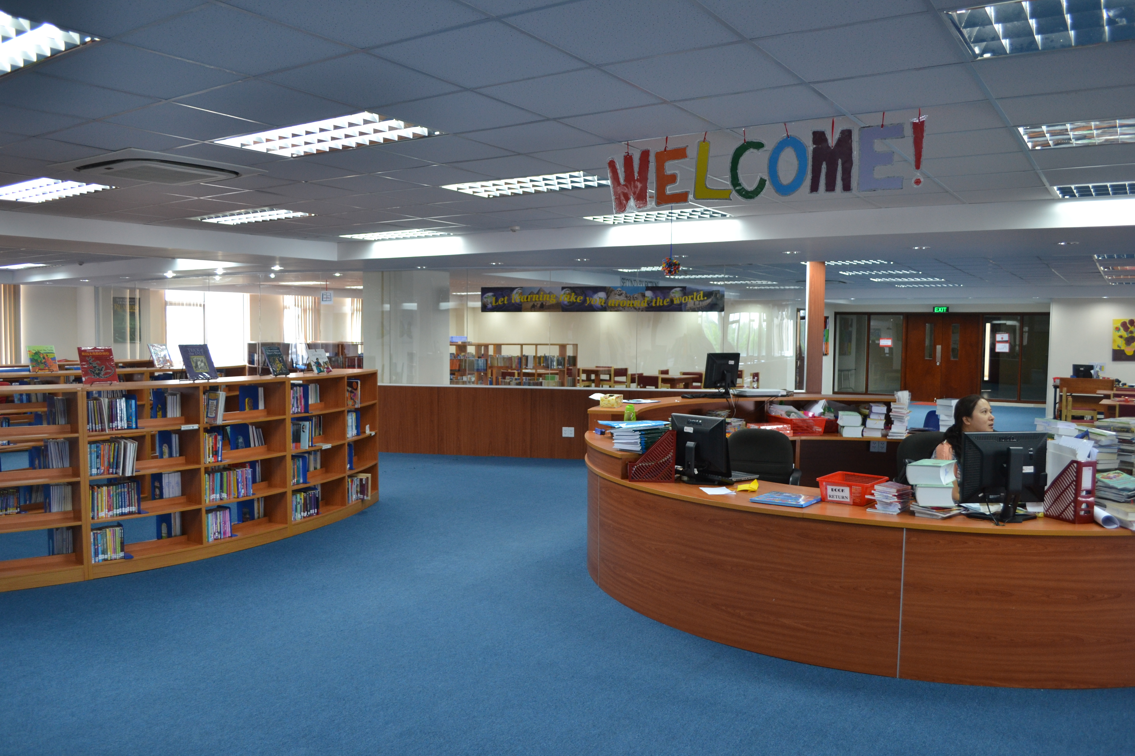 A photo of the British Vietnamese International School, Ho Chi Minh City's library.